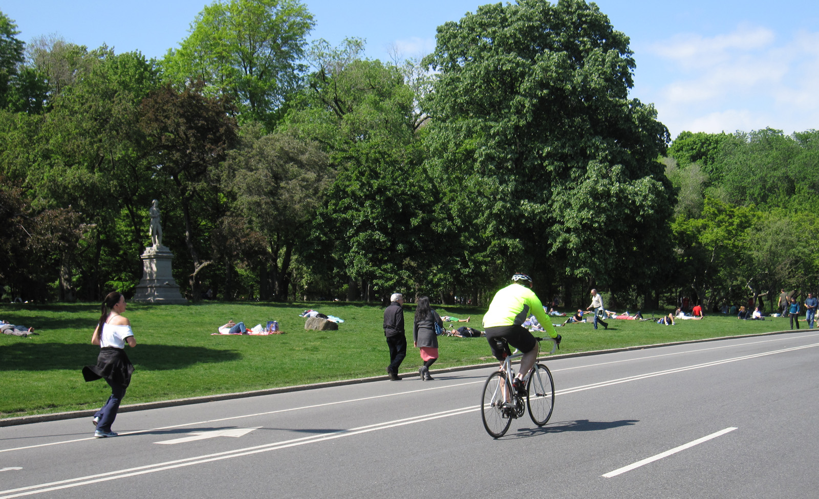 With the weather forecast calling for my arrival day, 6 May, being the only sunny day for my 4-night New York City stay, I needed to pounce and do something outdoorsy. And it's hard to top a bike ride through Central Park, using Park Drive, a counterclockwise loop road. On my mountain-road hybrid rental bike, I could do one lap of Park Drive in about 40 minutes; this is my favorite urban bike ride anywhere in the world, but I had not been able to do it in the previous 15 years. Sometimes there is nothing like a good nap in the sun.